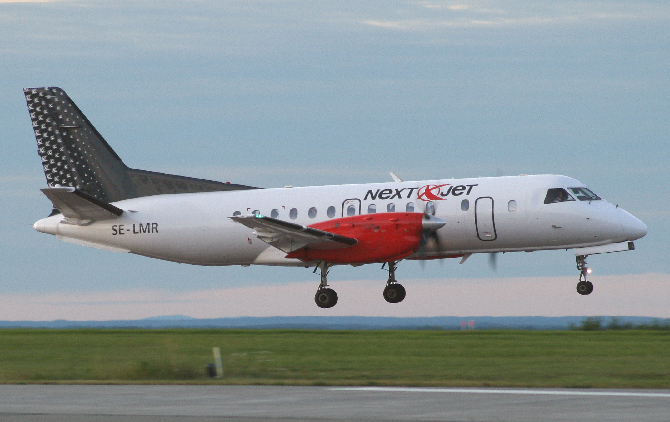 Nextjet Saab 340